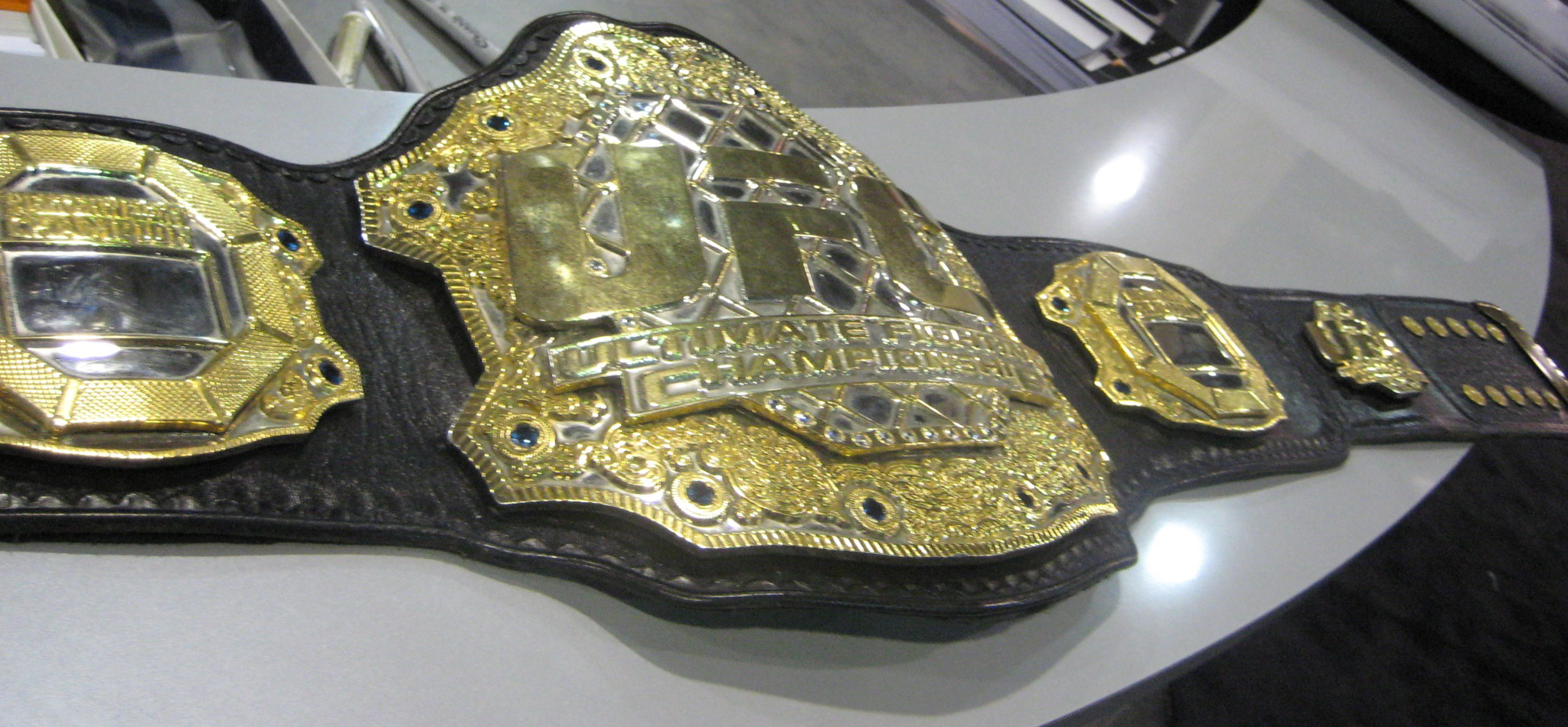 UFC Belt - Cropped from image on Flickr.